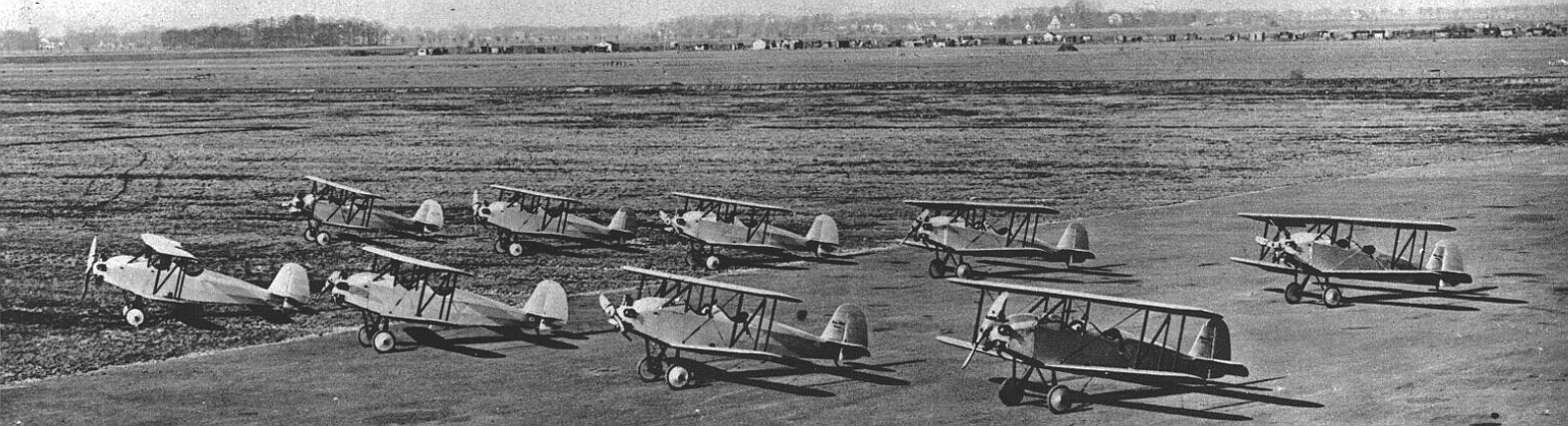 Walter NZ-60 and aircraft fleet Focke-Wulf S24a Kiebitz